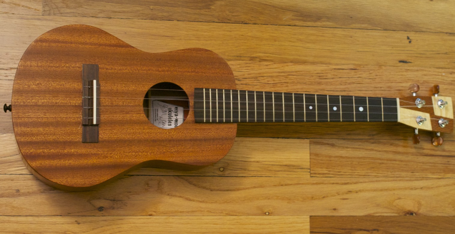 Mya-Moe mahogany ukulele in tenor size